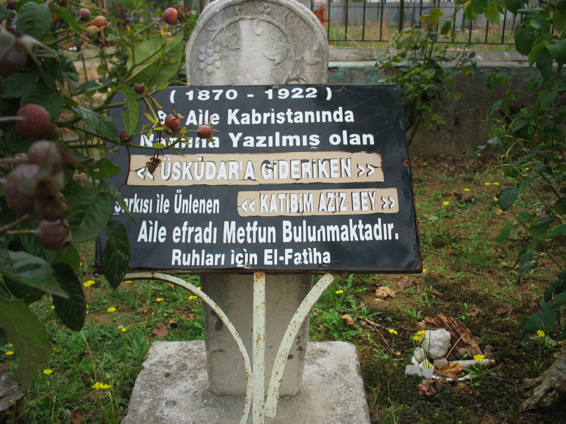 Grave of Katibim Aziz Bey, on Katibim Aziz Bey Street, Selamali (Selamsız), Üsküdar, Istanbul. Sign reads: "(1870-1922) In this family graveyard are found buried the Katibim Aziz Bey family, the Katibim Aziz Bey made famous by the song 'Üsküdar'a Gideriken' (While Going to Üsküdar), which was written for him. Recite the Sura Al-Fatiha for their souls."